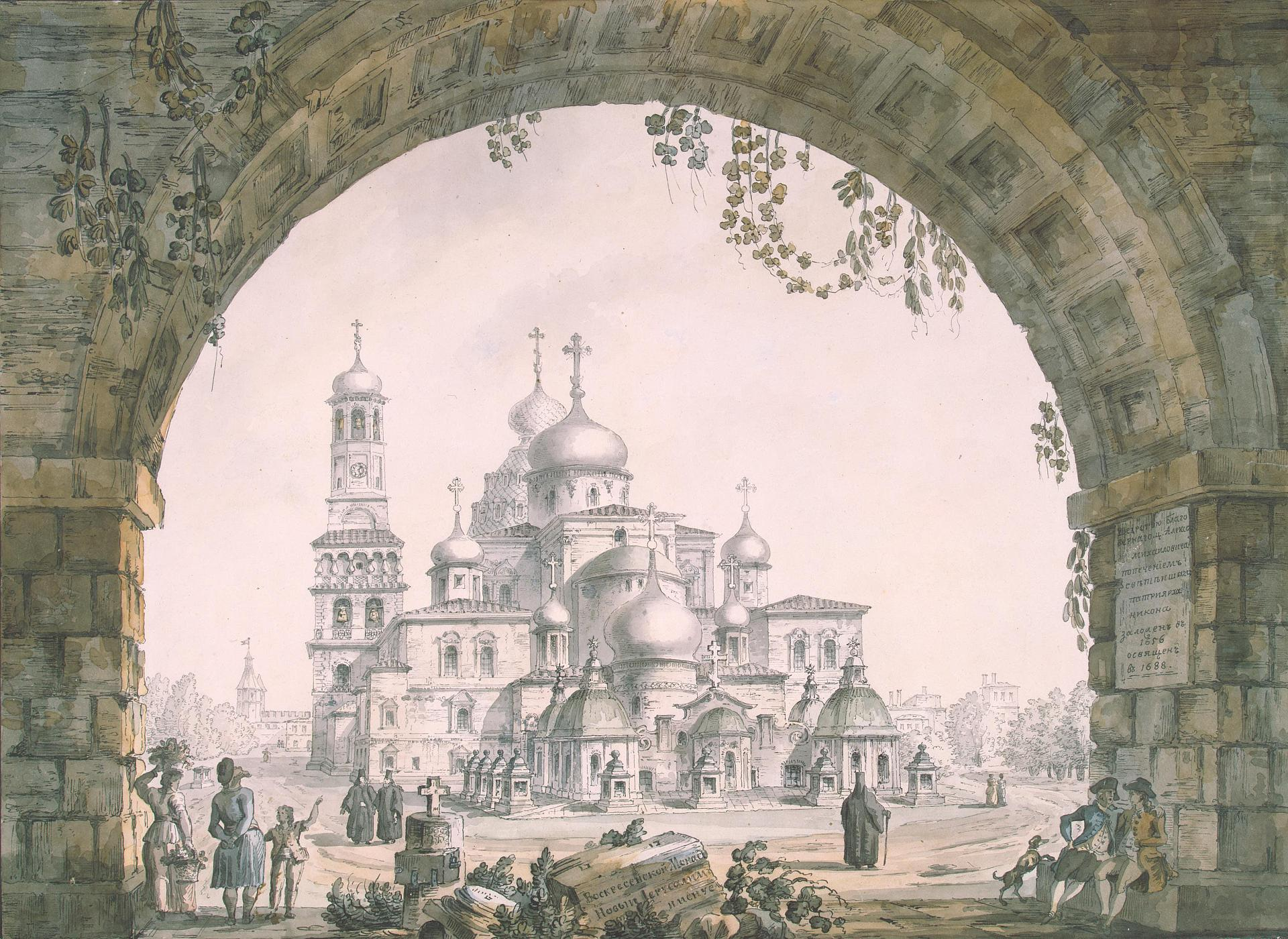 Giacomo Quarenghi. View of the Voskresensky Monastery (or New Jerusalem Monastery) beside the Istra River. Environs of Moscow near Moscow (1797). Landscape, Drawings, Pen, brush, Indian ink and watercolour, 43.4x57.5 cm. The Series Views of Moscow and its Environs. State Hermitage, Source of entry: acquired from K. Saunders, 1857